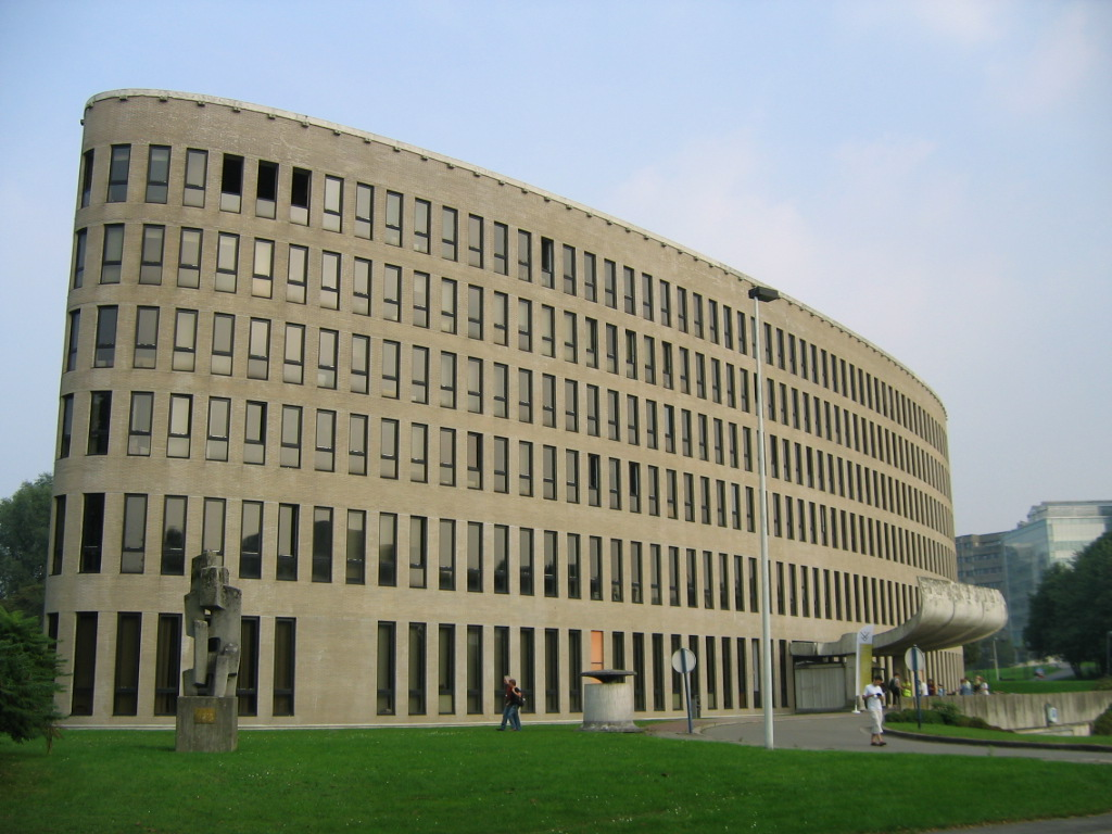 Renaat Braem, Rectorate of the Vrije Universiteit Brussel